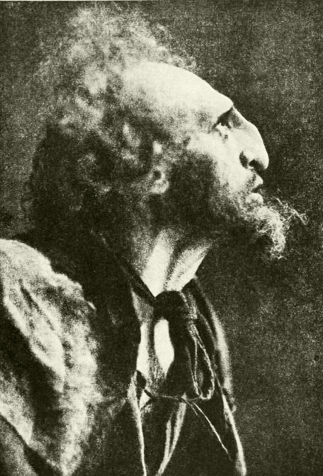 Nahum Zemach Moskaertheater 1920